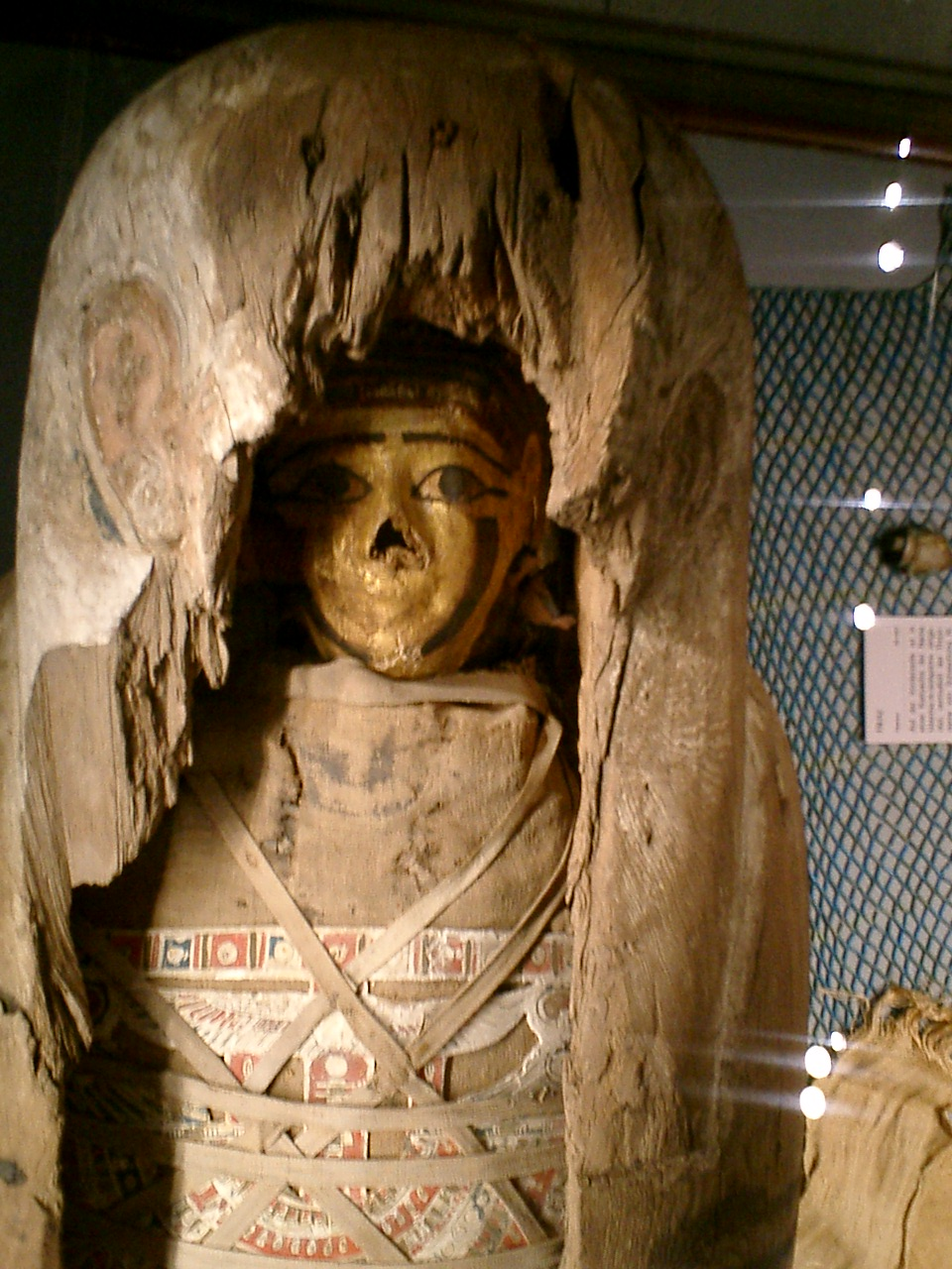 One of the mummies in the Egyptian antiquities in the Kunsthistorisches Museum.